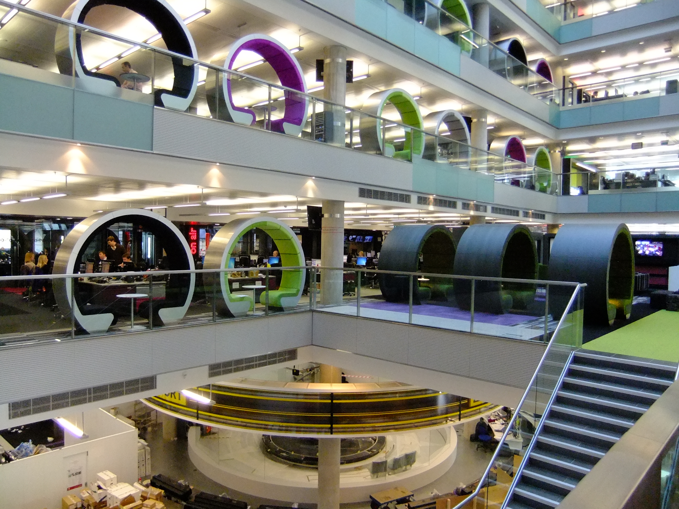 A look at BBC Radio 5 live (this floor), the Sport studio (bottom floor, being built) and BBC Radio Manchester (upstairs) at MediaCityUK